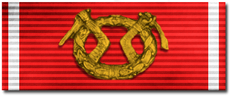 Kunniamerkkinauha Vapaudenristi 1. lk. miekkojen kera.